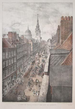 Cheapside in 1823. Engraved by T.M. Baynes from a drawing by W. Duryer.